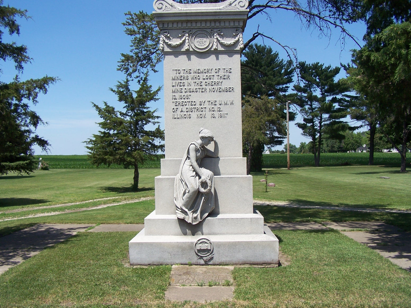 1911 monument to the Cherry, IL Mine Disaster of November 13th, 1909. Holy Trinity/Miners' Memorial Cemetery, Cherry, Illinois.